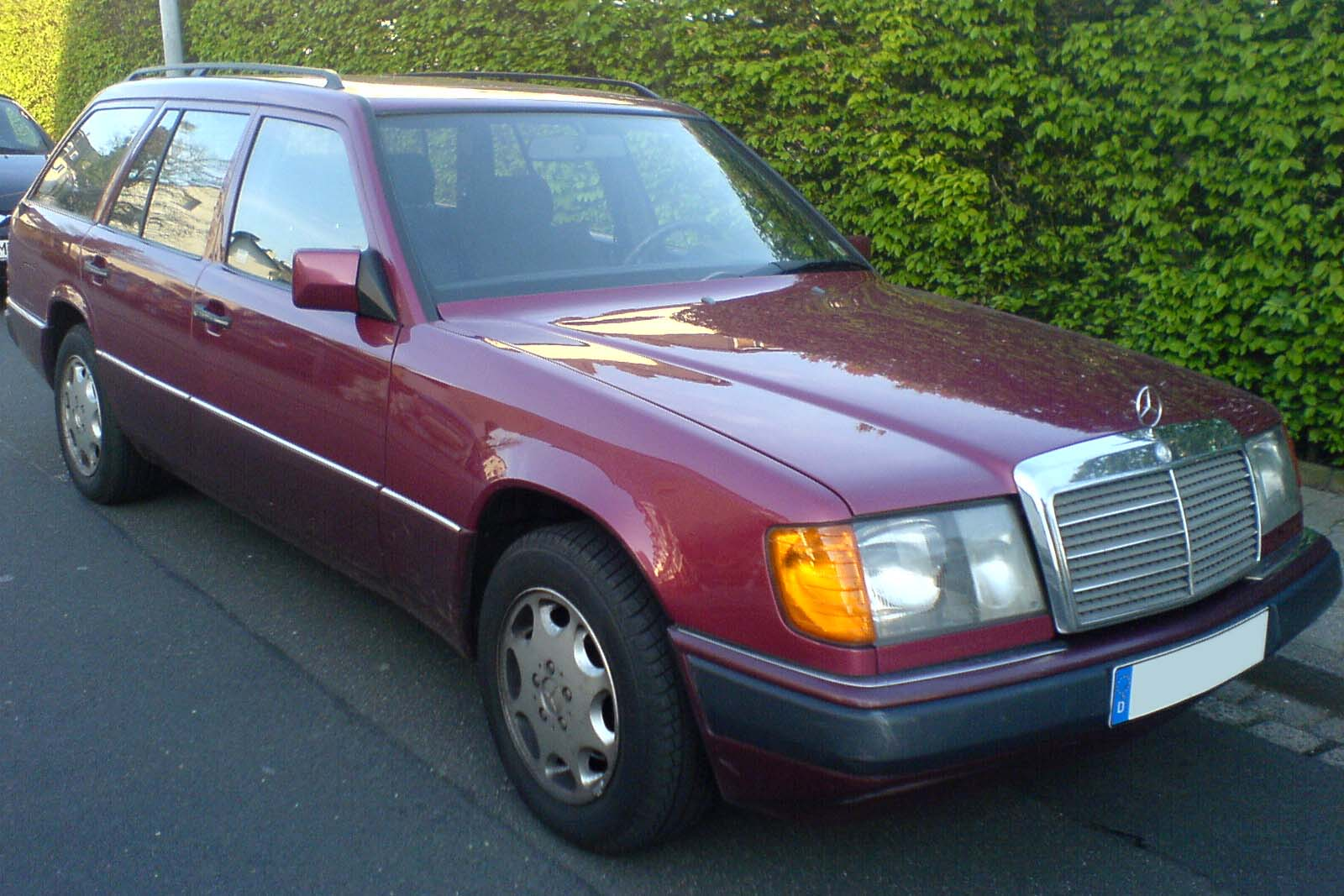 Mercedes 250 TD (W124) Station wagon